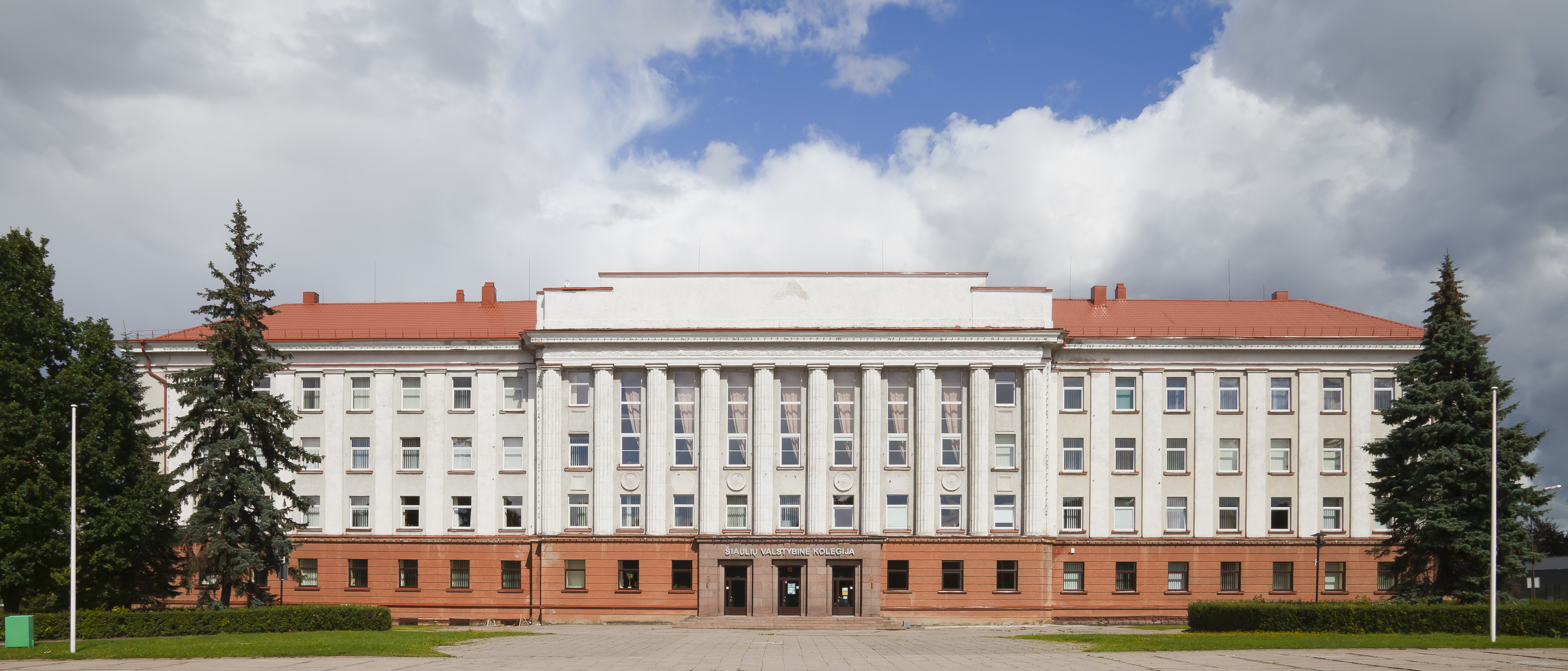 Siauliai National University, Siauliai, Lithuania